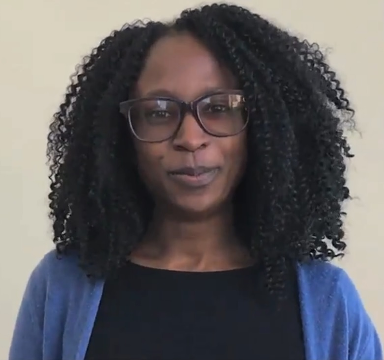 Chatting with Dr Ayana Arce from Duke University, who works on the Large Hadron Collider. She's working on the puzzle of why we have mass. Perhaps it's evidence that there is another dimension?! She hopes large hadron collider experiments might give us a hint of the fifth dimension. But so far she's only proved that we shouldn't exist, according to current theories...